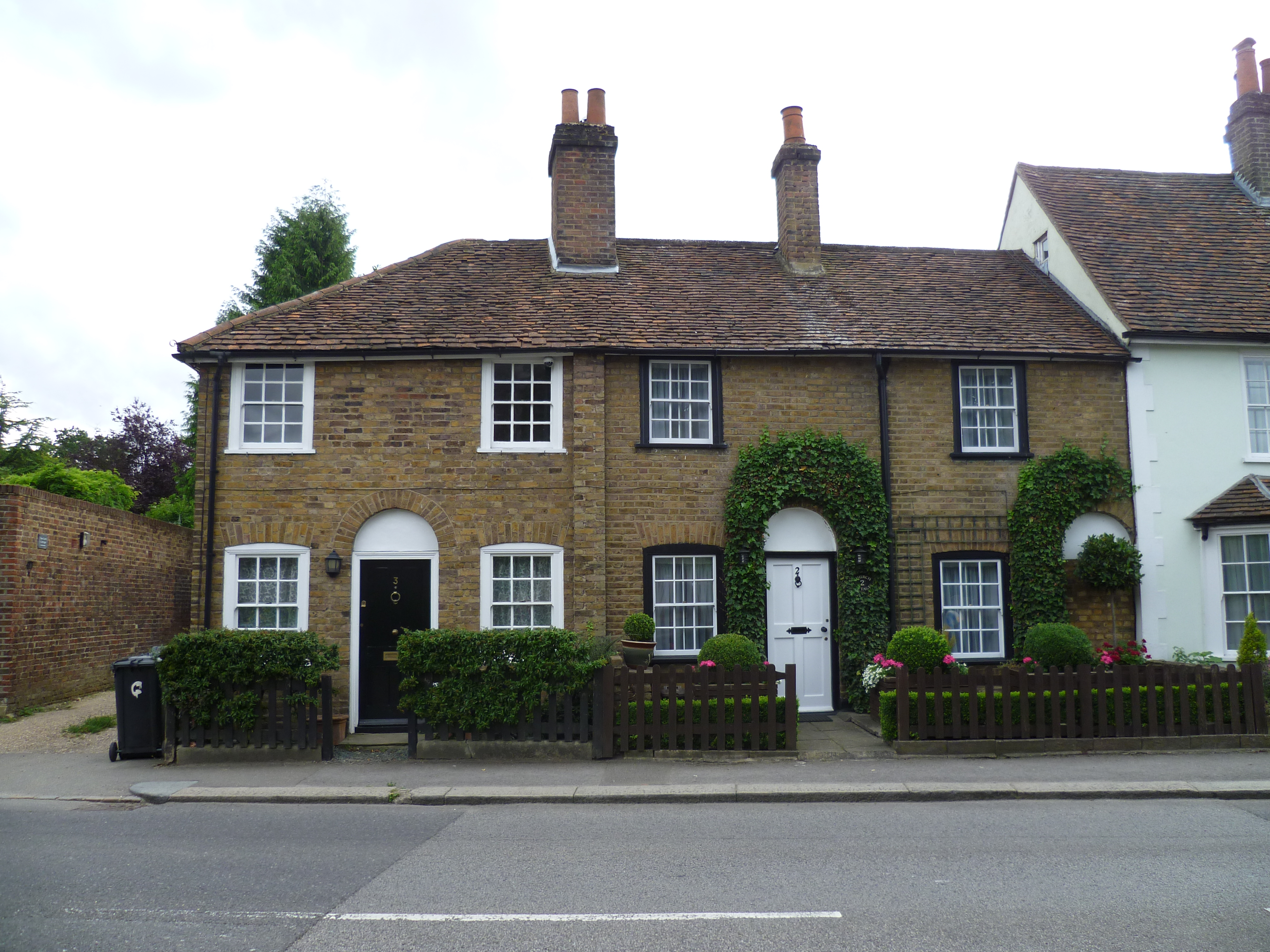 Monken Hadley 3 Aug 2015